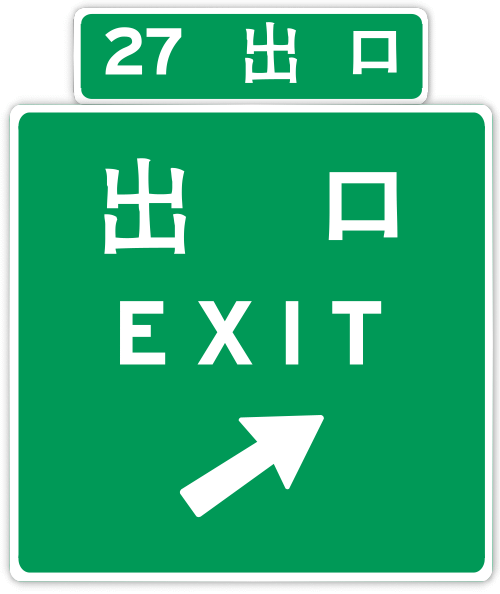 Exit sign found in a freeway in Taiwan.